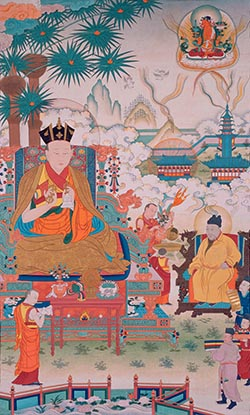 Palpung Sherabling